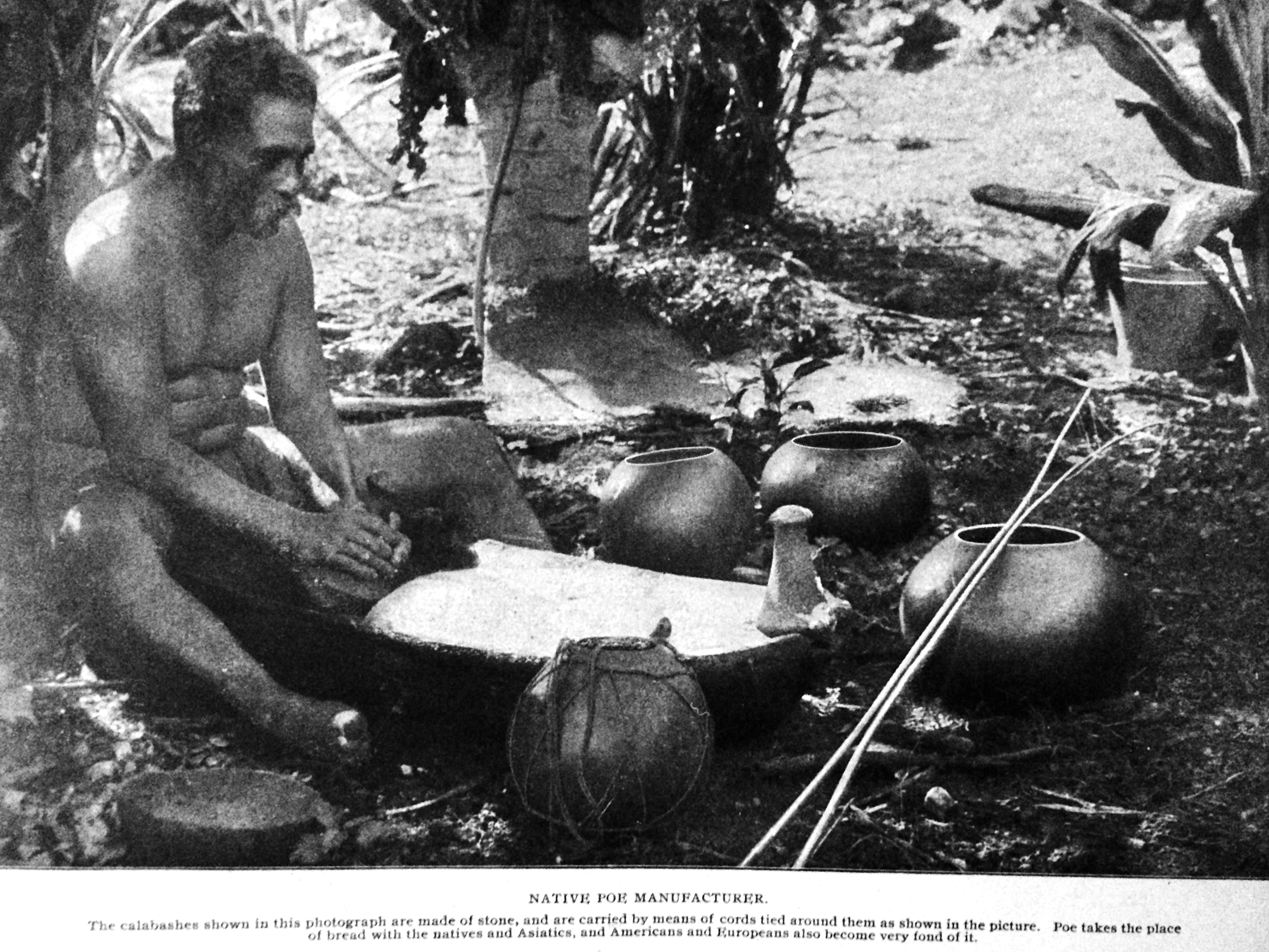 Making native Hawaiian food.